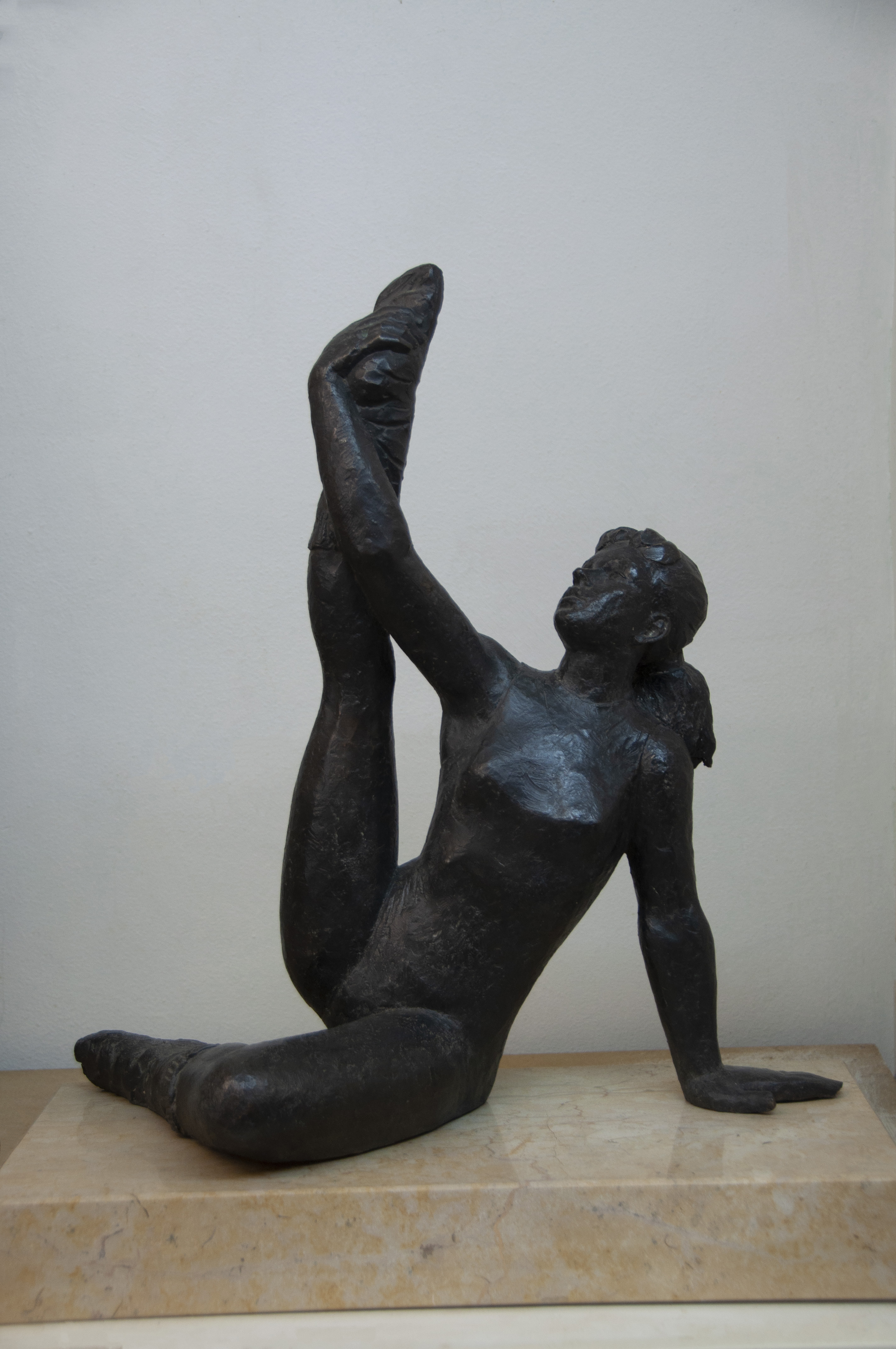 Joan Ferrés (Olot, Catalonia): Agilitat 1